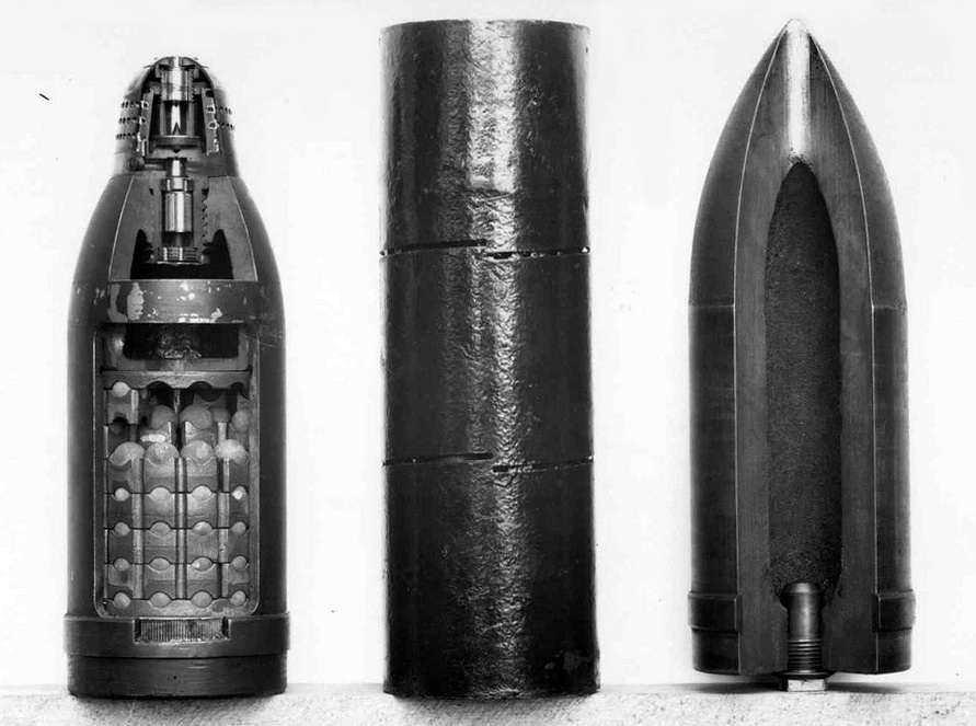 View of shells